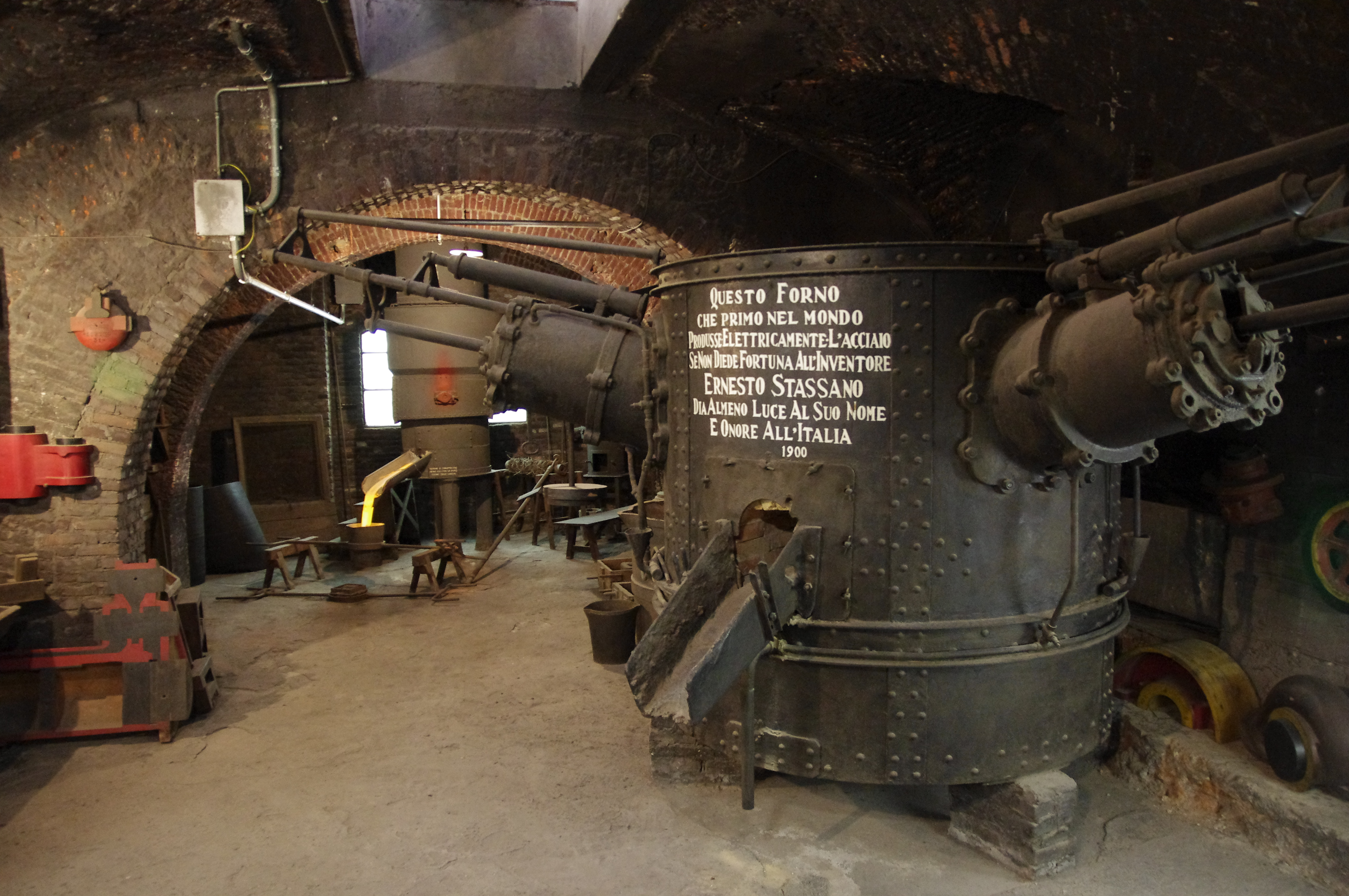 National Museum of Science and Technology Leonardo da Vinci in Milan